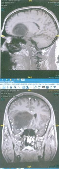 Low grade astrocytoma of the brain. Magnetic resonance imaging after contrast medium administration. Uploaded with permission of the patient